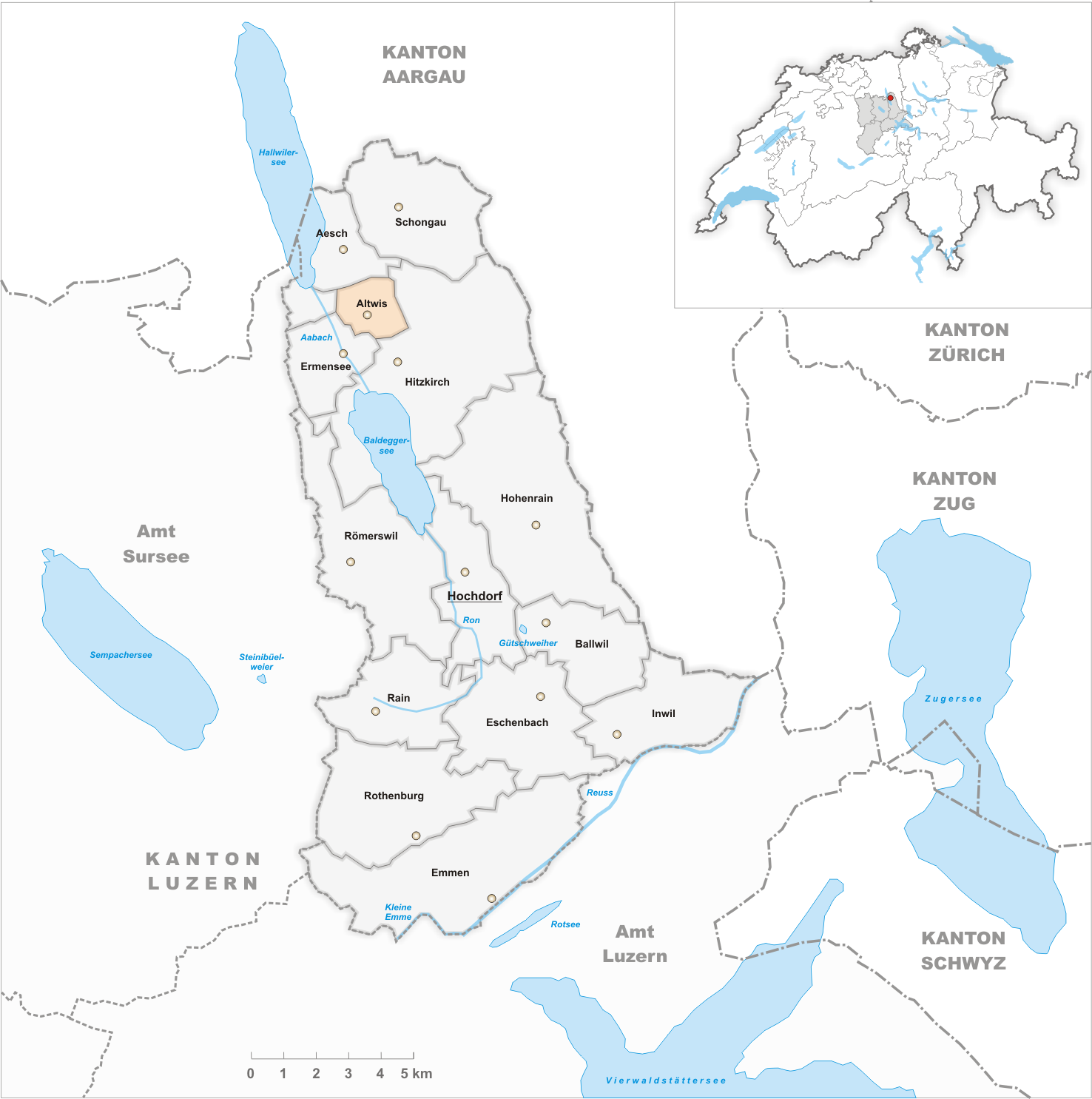 Municipality Altwis